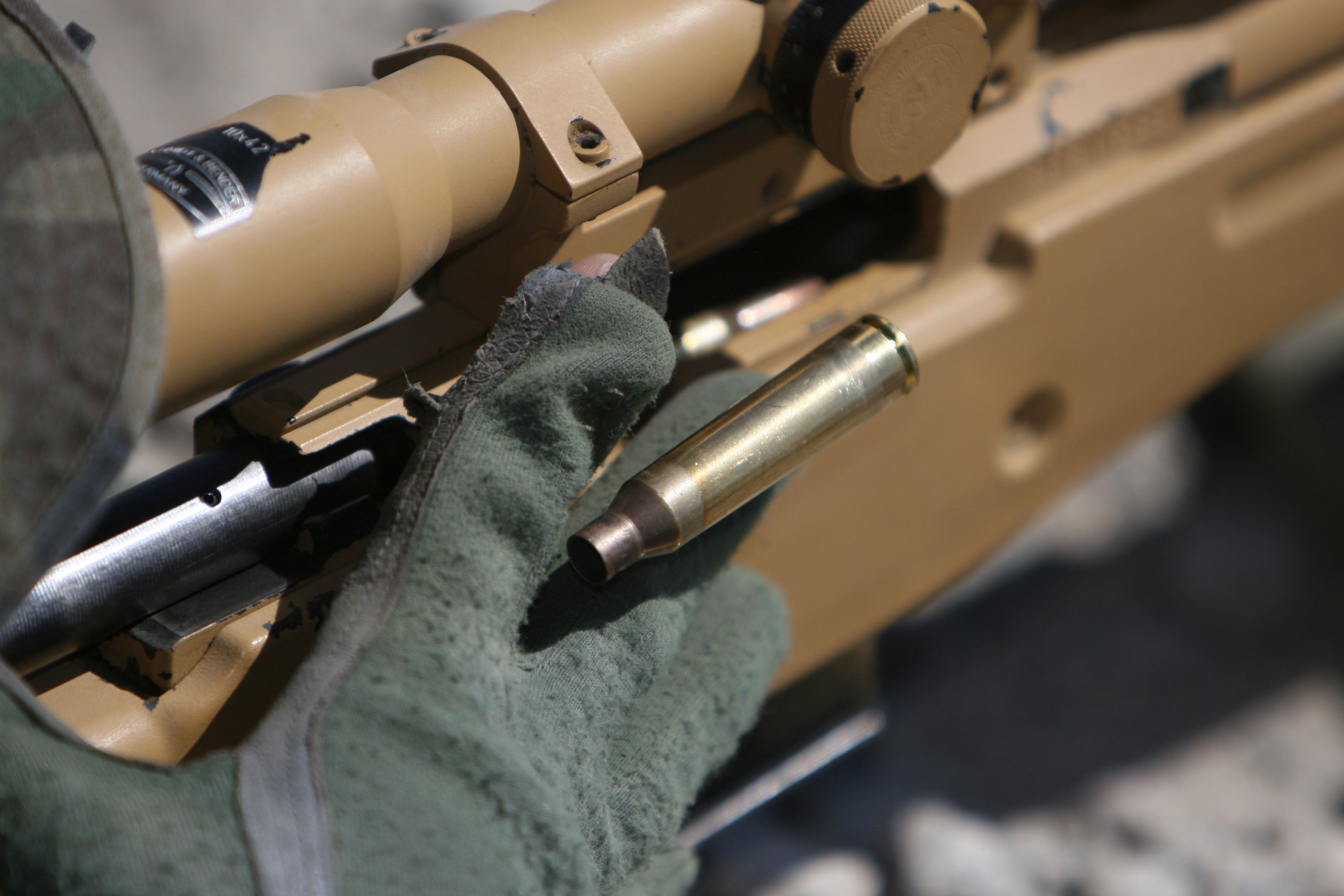 Sgt. Vince Manusama, a sniper with Sniper Team, 24th Co., 2nd Battalion, Royal Dutch Marines, ejects a shell casing from his Accuracy International .338 Lapua sniper rifle during a training exercise atop Rocket Mountain here Tuesday. The snipers fired roughly 100 rounds during each of the four day training exercise.